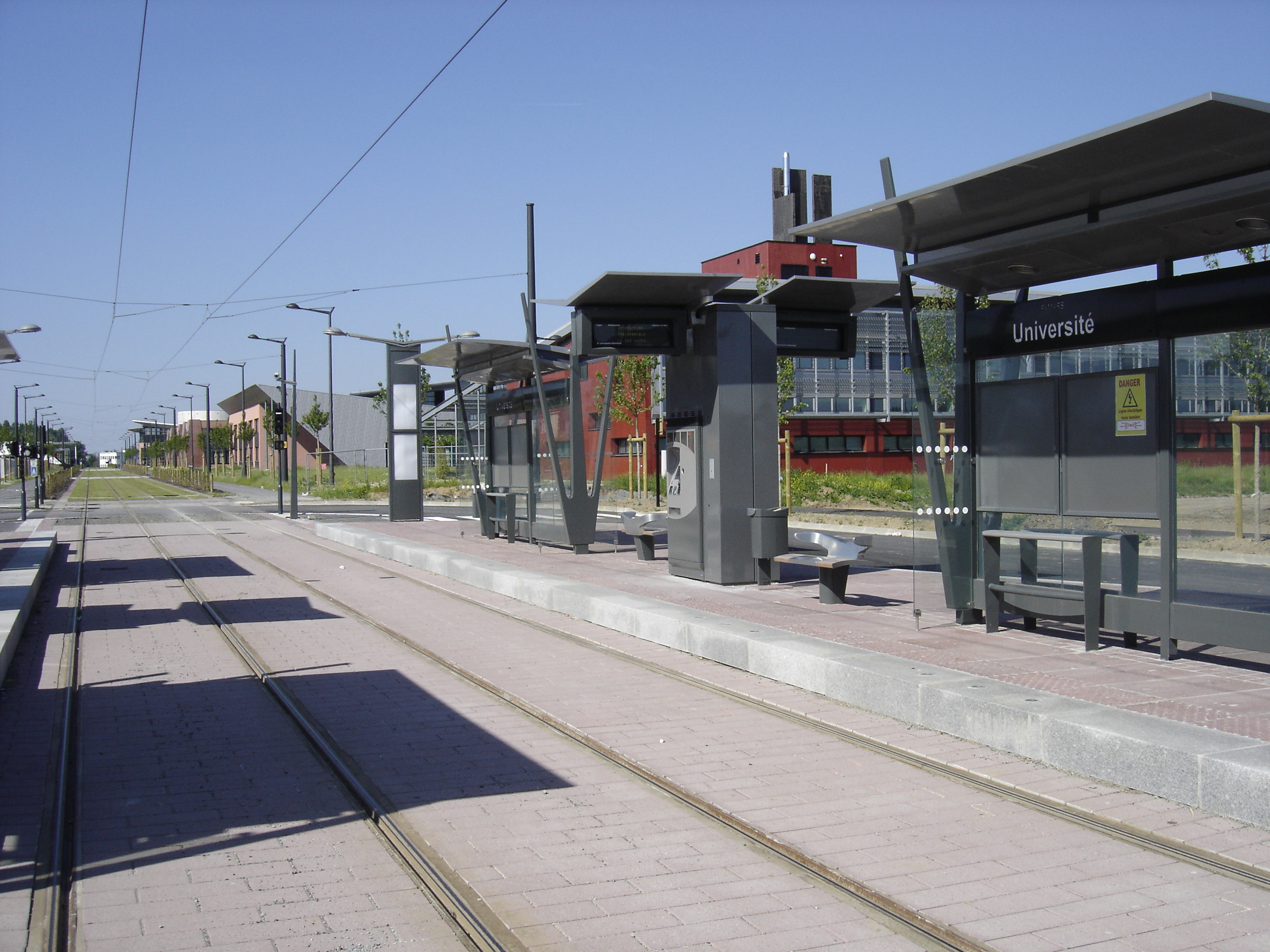 A station of the Valenciennes tram (Université). Picture taken by myself.